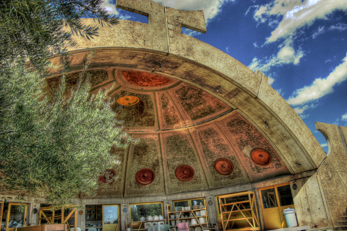 Apse at the Arcosanti experimental town.